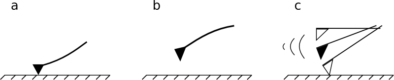 the 3 different modes of a afm (atomic force microscope) : a) contact b) non-contact c) intermittent